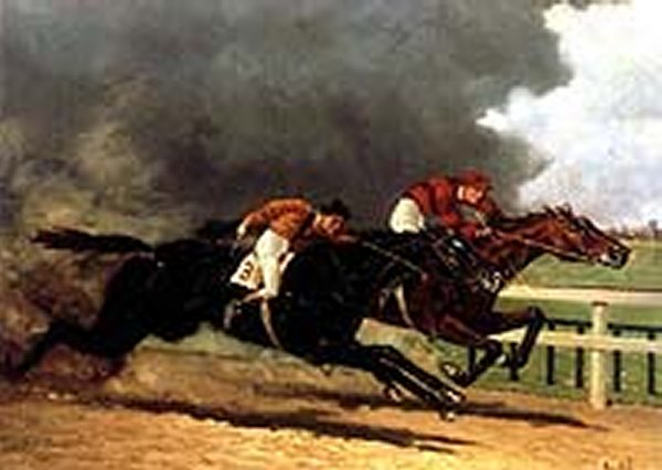 1900 Brighton Cup in which Imp (front side) beat Ethelbert (back side).